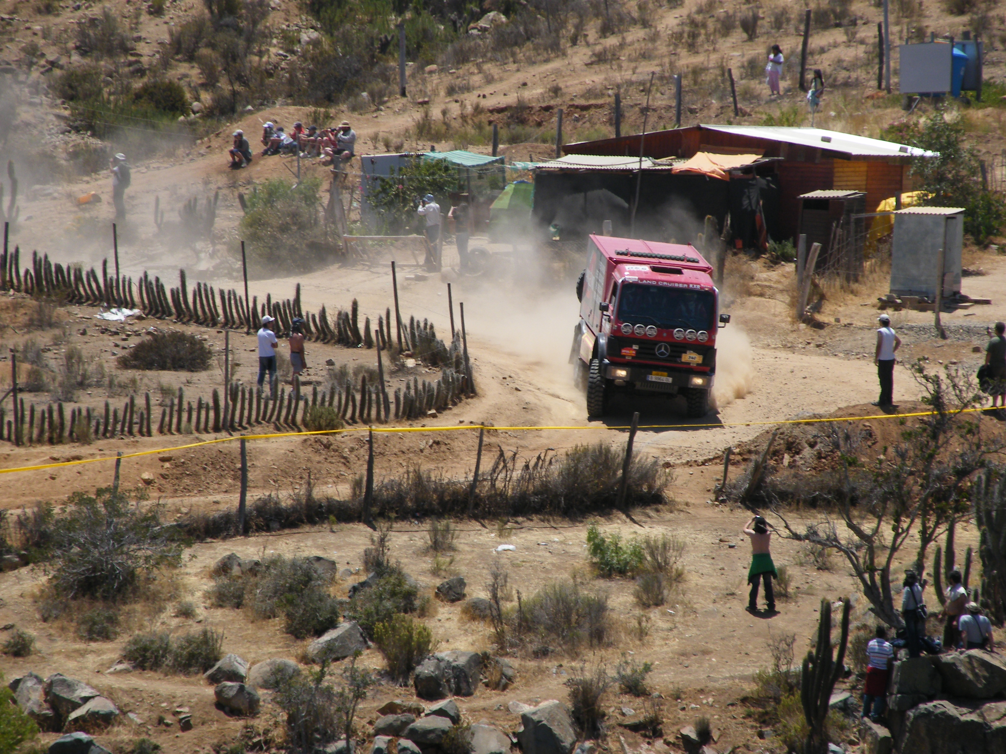 Rally Dakar 2009 en Chile